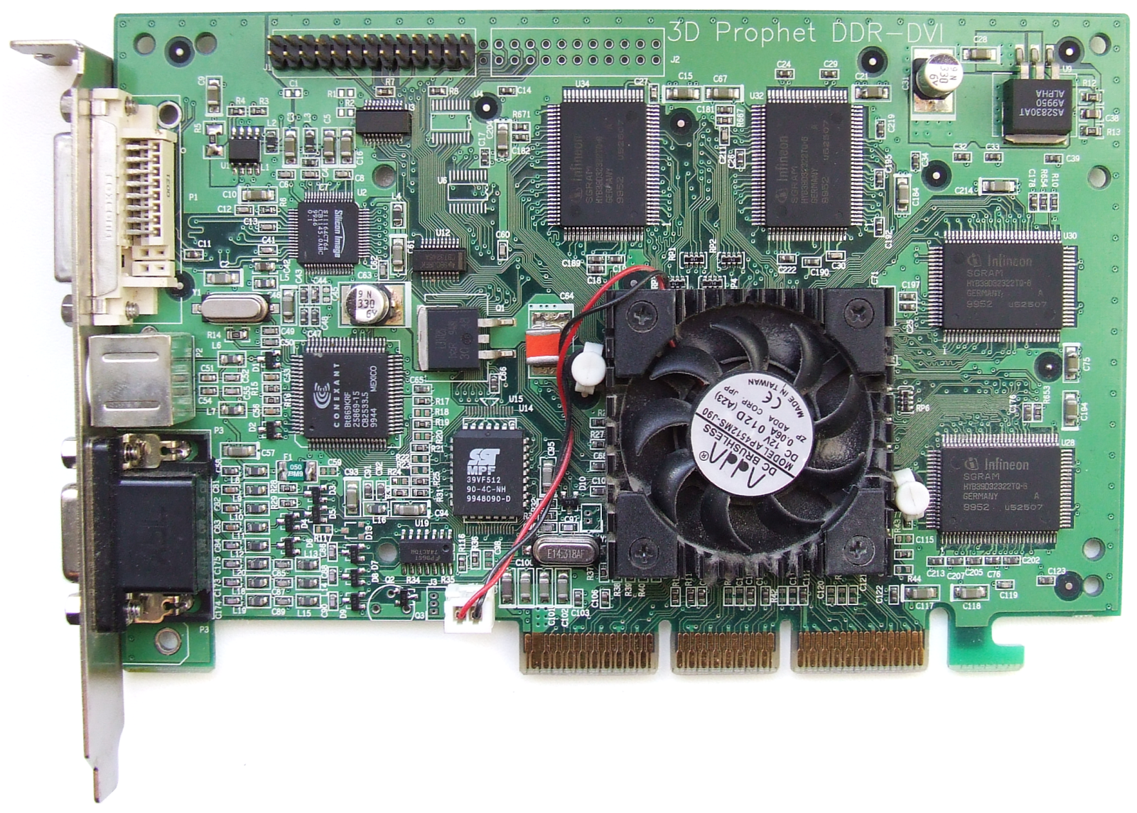 Hercules 3D Prophet DDR-DVI video card. It is based on the GeForce 256 (NV10) graphics processing unit and equipped with 32 MB of DDR-SGRAM, a VGA and DVI-D port each, and TV out.